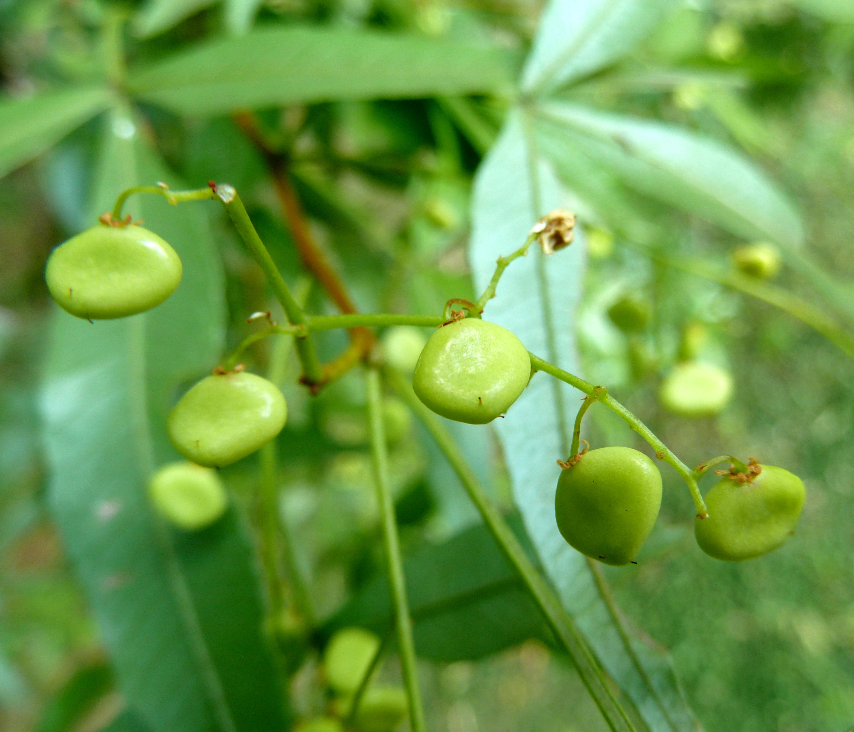 Fruit of a Mountain karree in a suburban park in Lynnwood, Pretoria